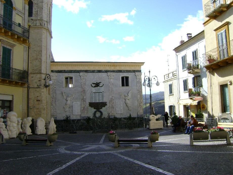 The church of Saint Giovanni Battista and Piazza Pietro Benedetti to Atessa